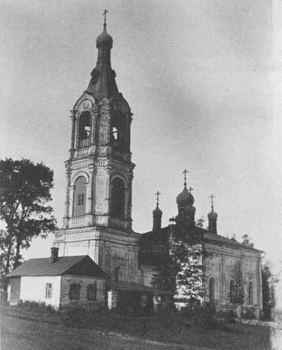 Church of the Nativity of the Theotokos in Krylatskoye